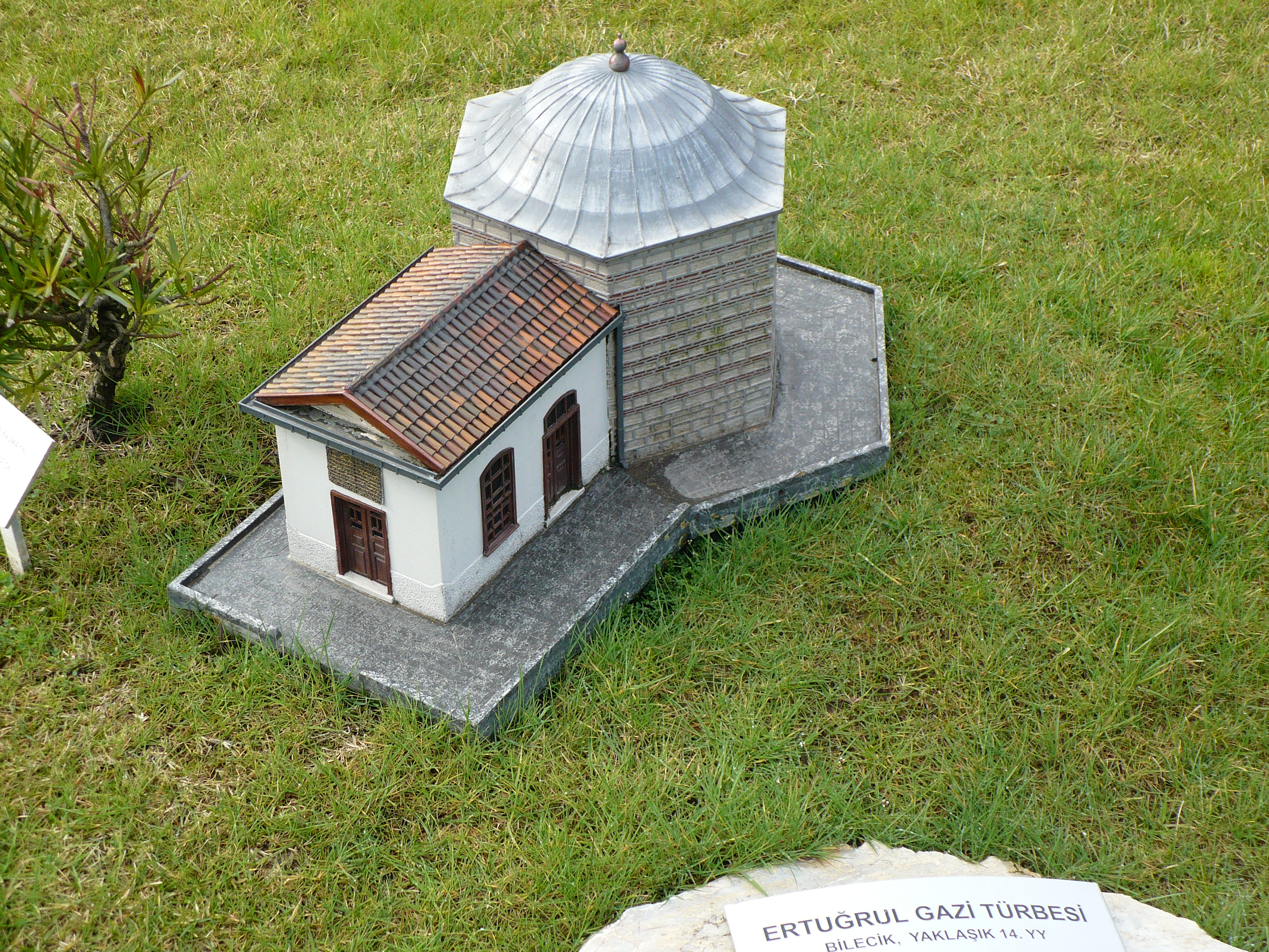 Ertuğrul (Gazi); was the father of Osman I, the founder of the Ottoman Empire...This is the mausoleum of Ertuğrul Gazi in Bilecik, Turkey (Scale model from Miniaturk-Istanbul)